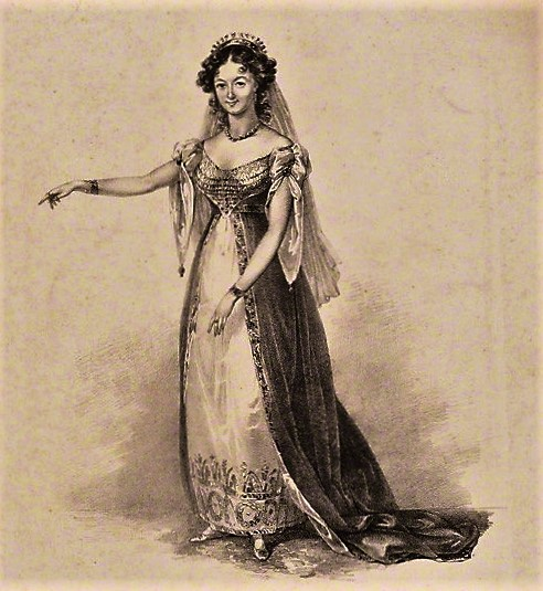 Maria Ann Lovell nee Lacy as Lady Diana in Love's Victory published by William Kenneth, lithograph, published 27 November 1826